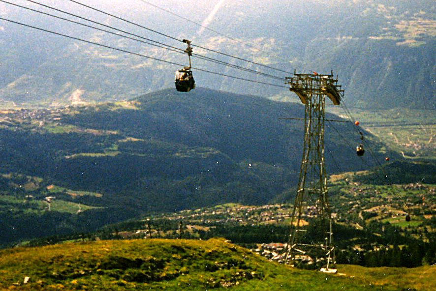 The cable car in Anzère, Valais, Switzerland. July 1998.